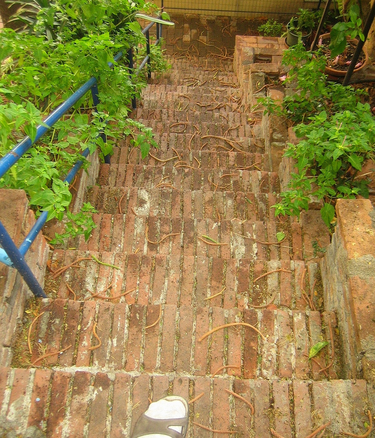 Typical yard staircase in Taormina (Sicily, Italy)